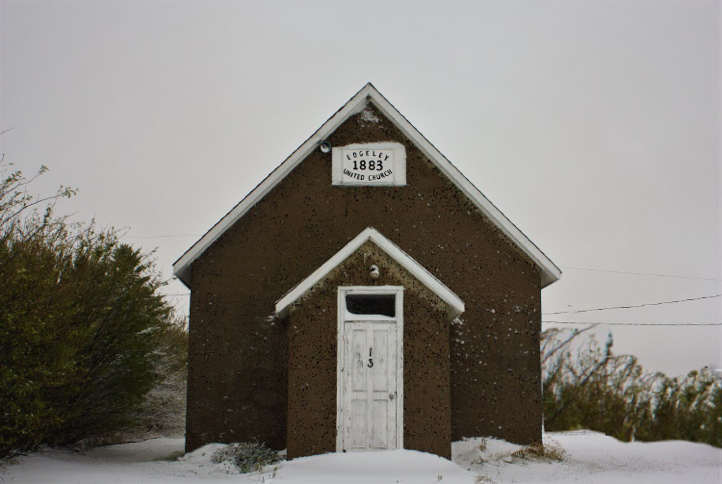 Edgeley is a small hamlet in rural southern Saskatchewan